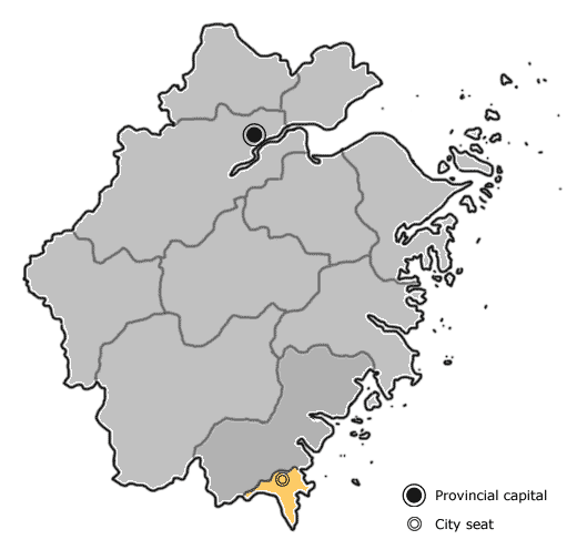 ChinaZhejiangCangnan